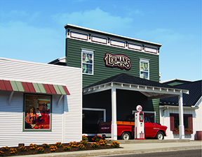 The storefront of Lehman's Hardware in Kidron, Ohio, 2012, recently remodeled to resemble the original storefront from 1955.